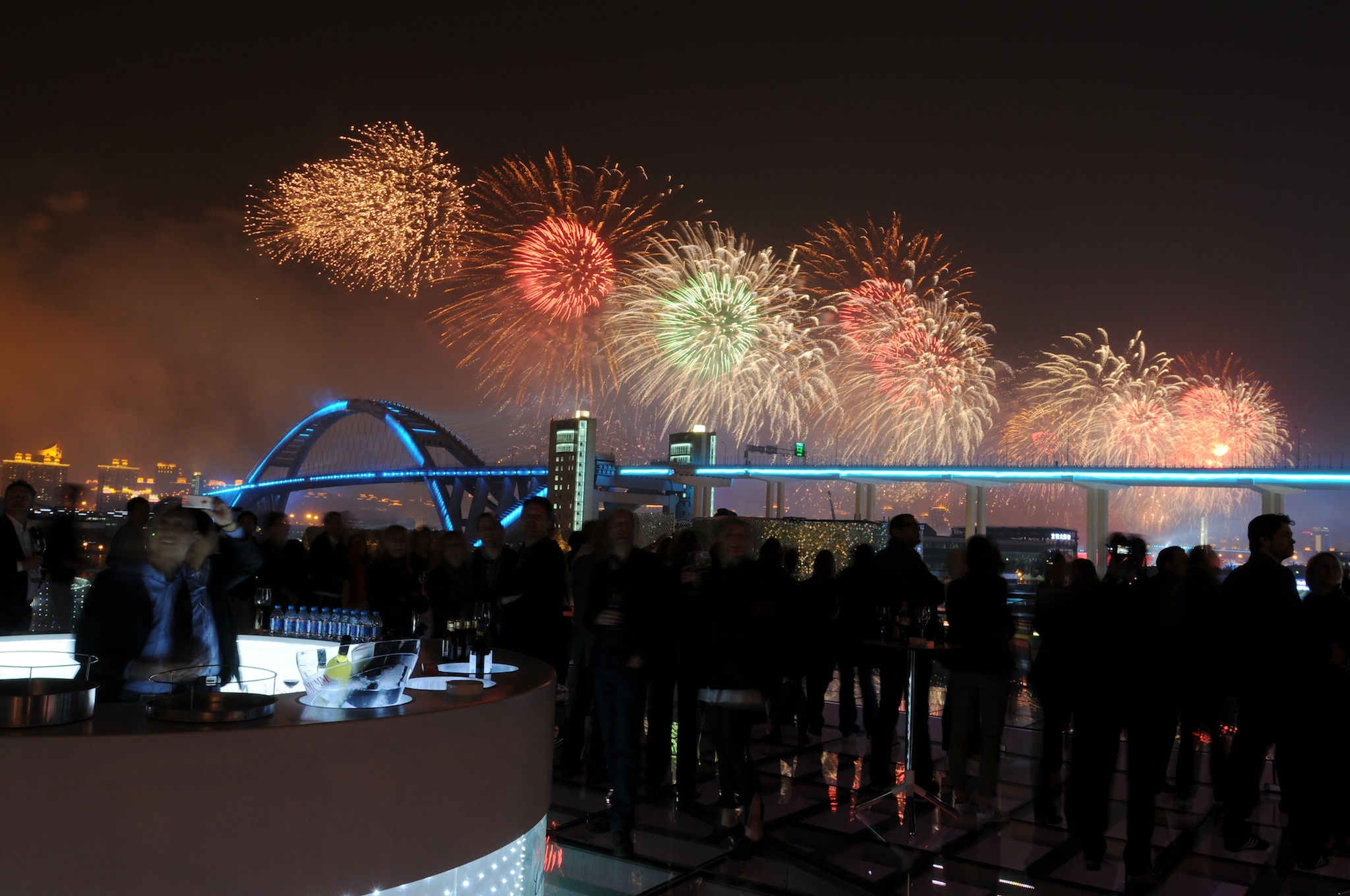 Expo's opening-night fireworks light up the Shanghai skyline on the evening of April 20, 2010. These photographs are taken from the rooftop bar on the Swedish pavilion. By Stefan Geens